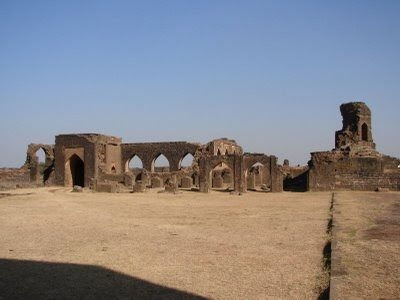 Inside Takht Mahal